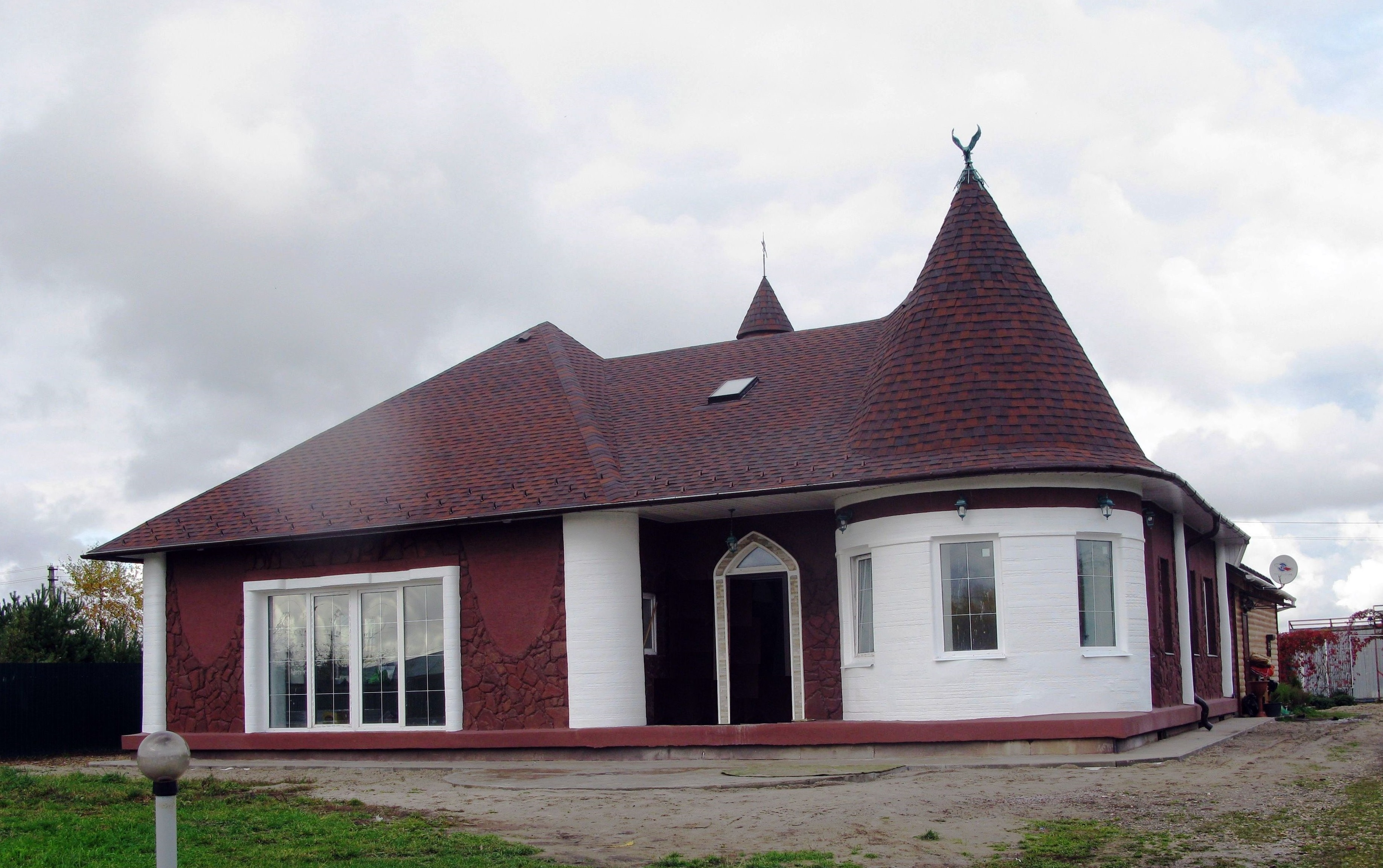 The first living building in Europe printed with a 3D construction printer. Yaroslavl (Russia)